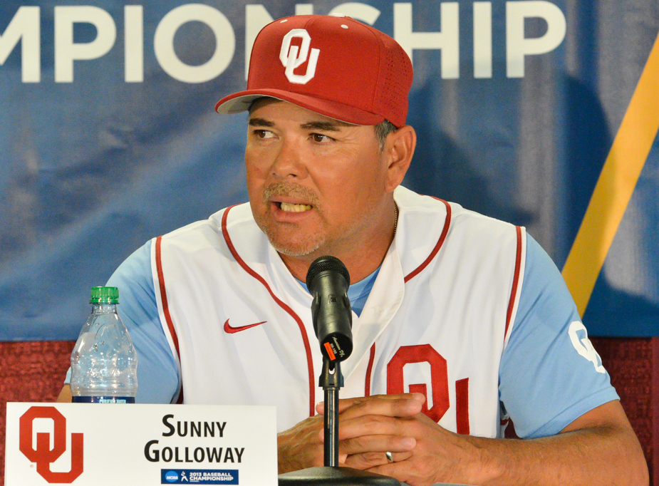 Sunny Golloway gives an interview after a 2013 game in the 2013 NCAA Division I Baseball Tournament